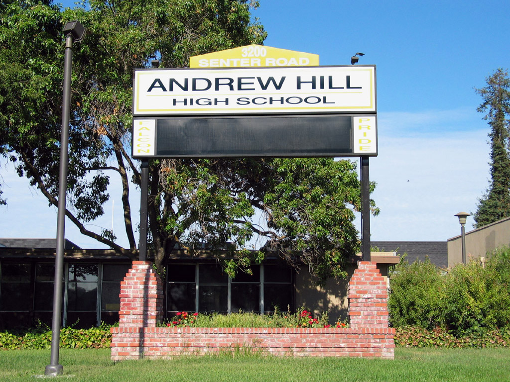 Andrew Hill High School billboard. Photograph taken by Bahn Mi of the Schoolwatch Programme and released freely under the Creative Commons Attribution ShareAlike 2.0 license.